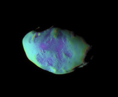 These views show surface features and color variation on the Trojan moon Telesto. The smooth surface of this moon suggests that, like Pandora, it is covered with a mantle of fine, dust-sized icy material. The monochrome image was taken in visible light (see PIA07696). To create the false-color view, ultraviolet, green and infrared images were combined into a single black and white picture that isolates and maps regional color differences. This "color map" was then superposed over a clear-filter image. The origin of the color differences is not yet understood, but may be caused by subtle differences in the surface composition or the sizes of grains making up the icy soil. Tiny Telesto is a mere 24 kilometers (15 miles) wide. The image was acquired with the Cassini spacecraft narrow-angle camera on Dec. 25, 2005 at a distance of approximately 20,000 kilometers (12,000 miles) from Telesto and at a Sun-Telesto-spacecraft, or phase, angle of 58 degrees. Image scale is 118 meters (387 feet) per pixel.